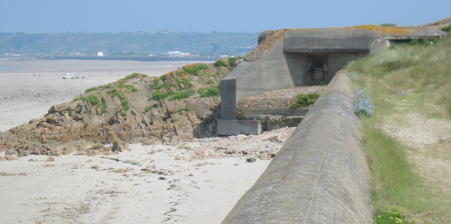 WWII German occupation coastal fortification in St. Ouen's Bay, Jersey